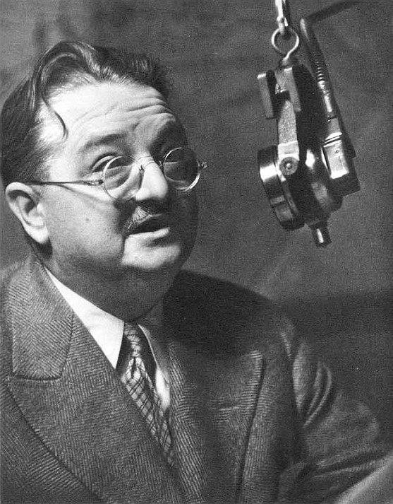 Portrait of Alexander Woollcott